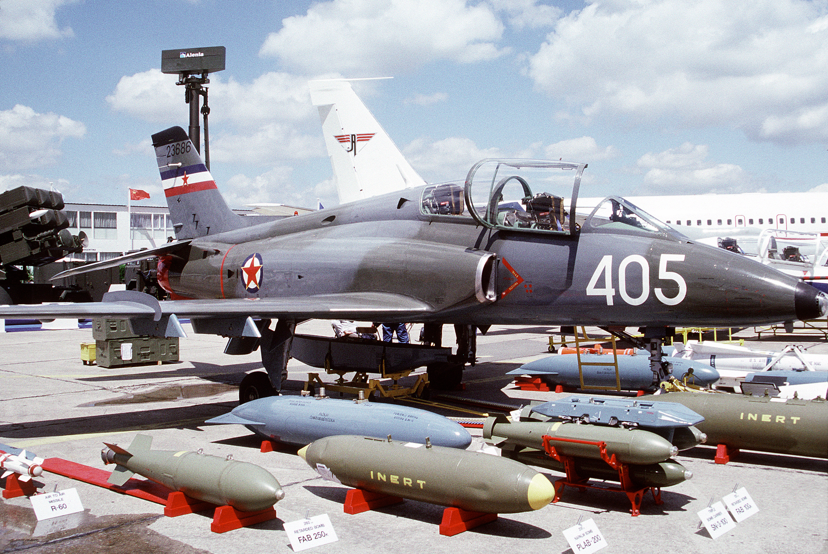 A SFR Yugoslav Air Force G-4 Super Galeb light attack and training aircraft sits on display at the 1991 Paris Air Show in France.